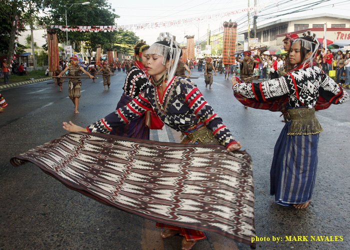 T' boli dance during colorful street dancing competition on 9th T' NALAK Festival in Koronadal, South Cotabato